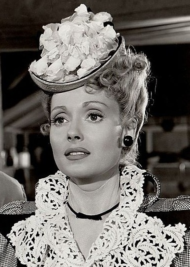 Martha Scott in In Old Oklahoma aka War of the Wildcats - cropped screenshot